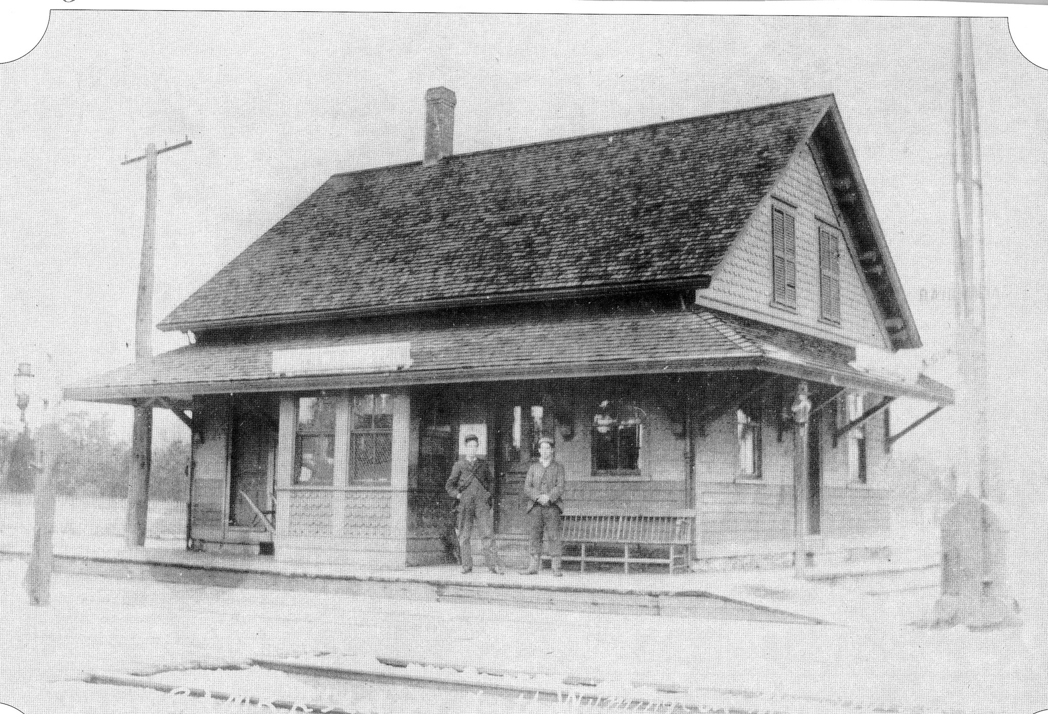 North Wilmington station in the early 1900s before it was destroyed by a 1914 fire